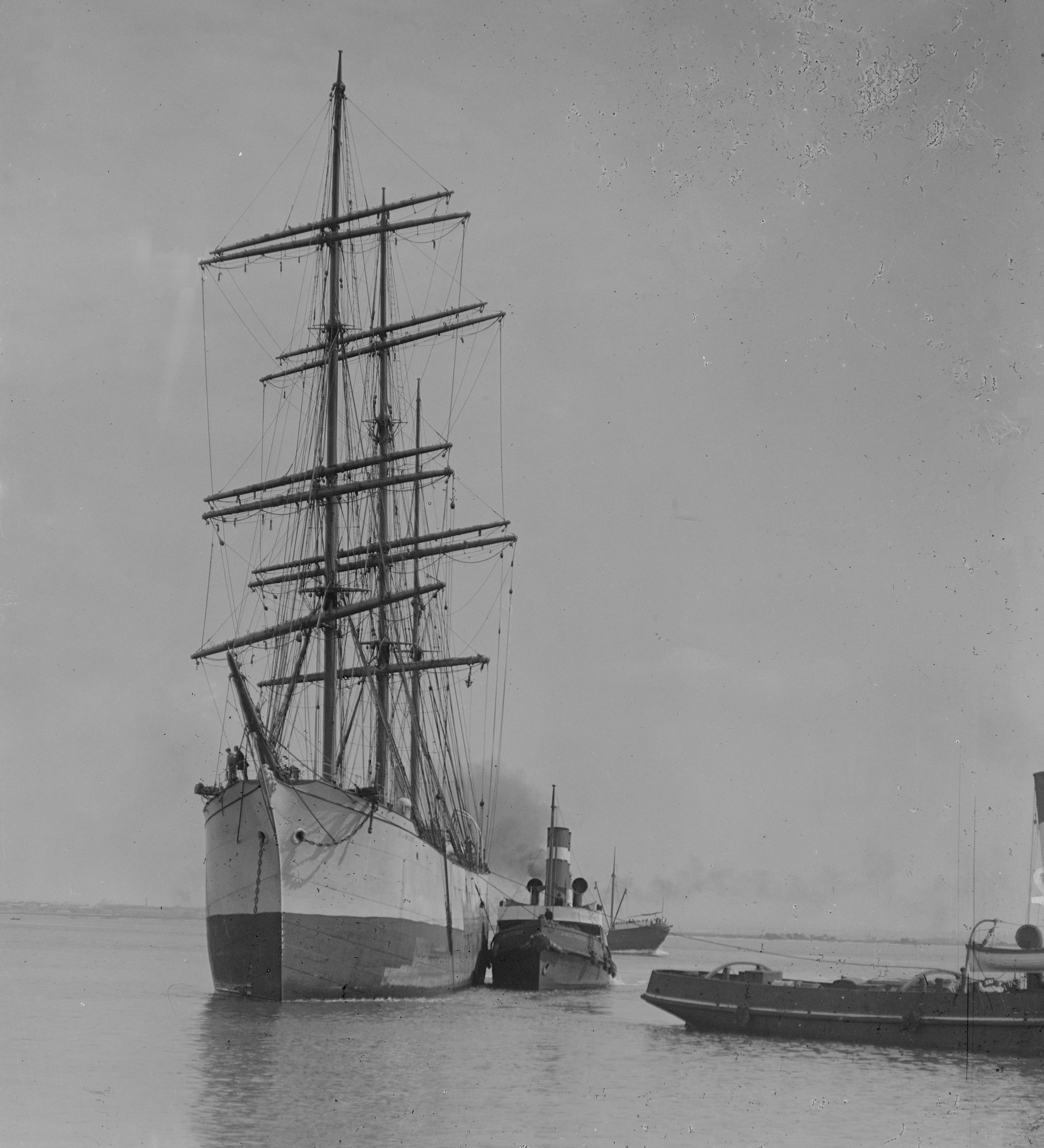 Original caption: “ISLAMOUNT; Shows the tug „James Paterson“ towing the ship. The „Edina“ is visible on the right of the „Islamount“.”